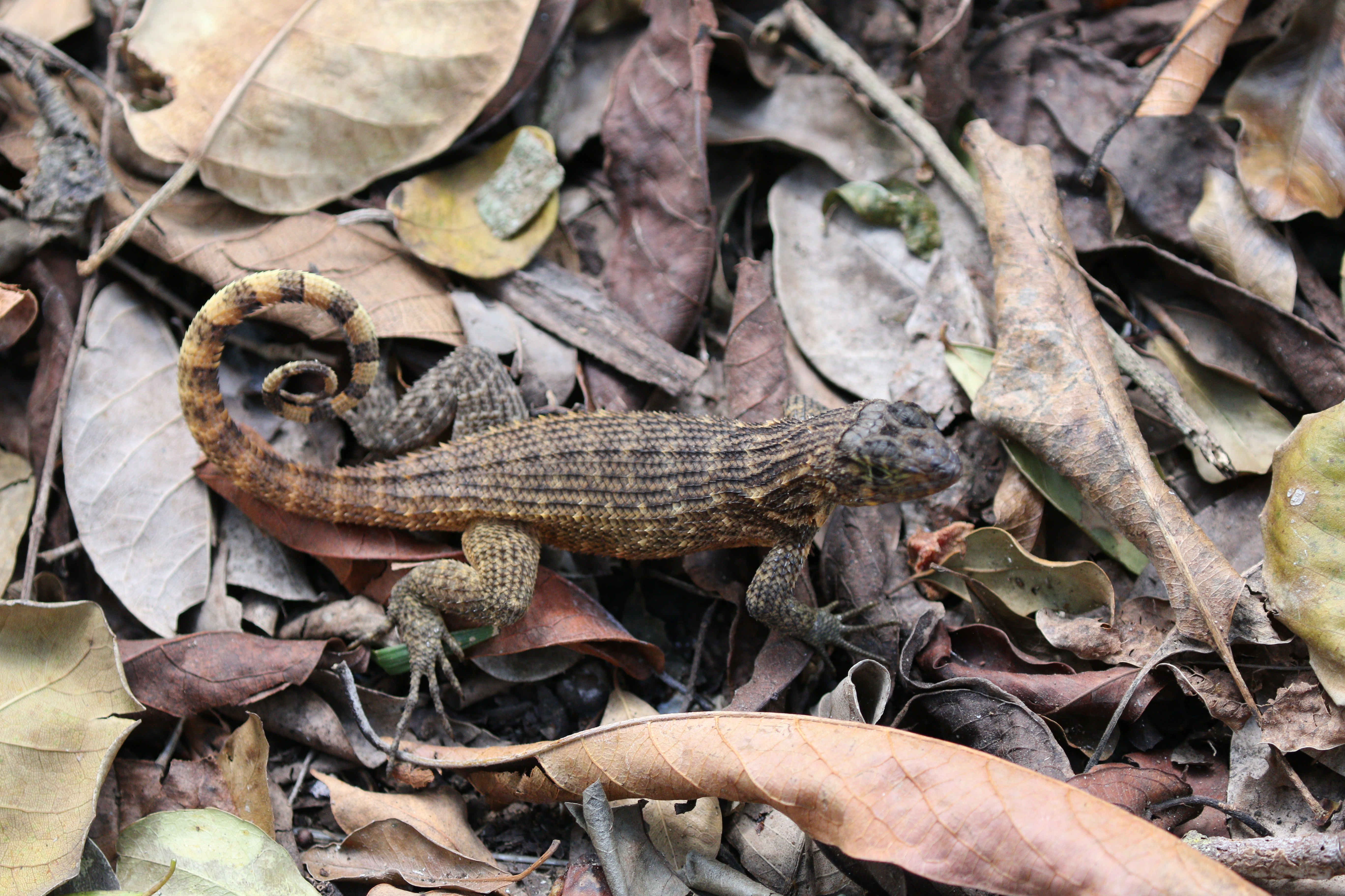 Cuban curly-tailed lizard (Leiocephalus carinatus labrossytus), Playa Larga, Cuba